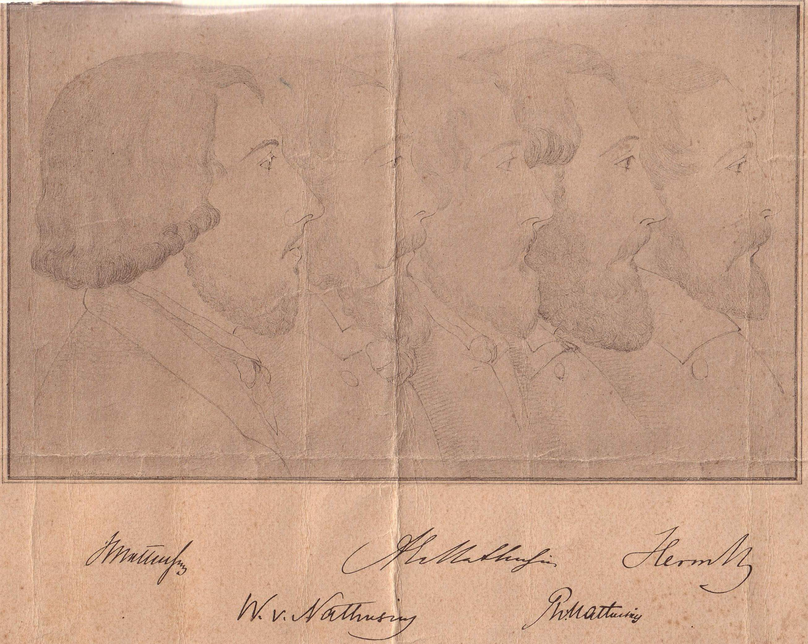 Brothers Nathusius, sons of Johann Golttlob Nathusius